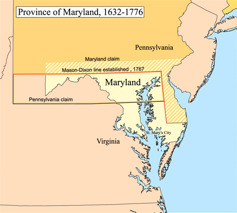 Map of the Province of Maryland. Boundary disputes between colonies not involving Maryland are not shown.